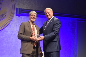 Tom Devine accepting Coalition for Integrity award on behalf of whistleblowers everywhere.